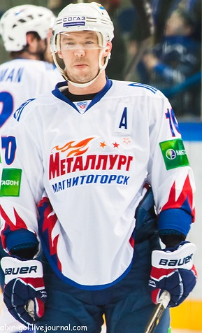 Sergei Mozyakin during the pregame warm-up. Amur Khabarovsk — Metallurg Magnitogorsk KHL-game on October 8, 2012.